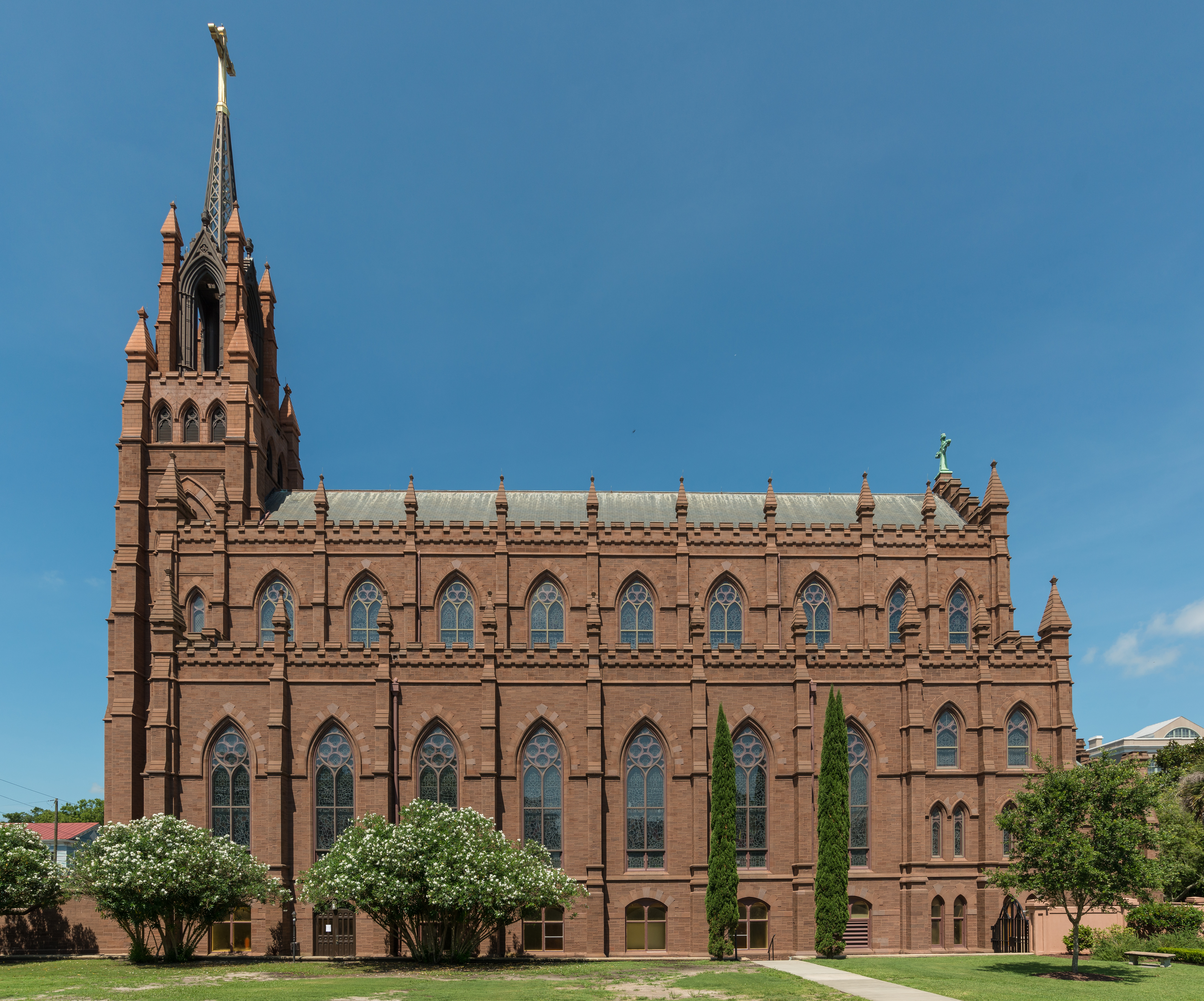 An east view of Cathedral of Saint John the Baptist, Charleston, South Carolina